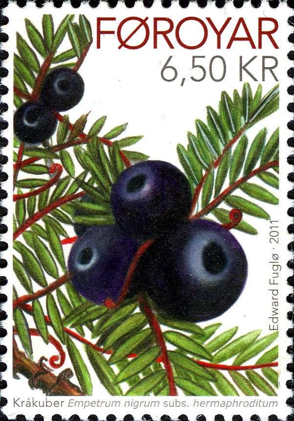 Stamps of the Faroe Islands